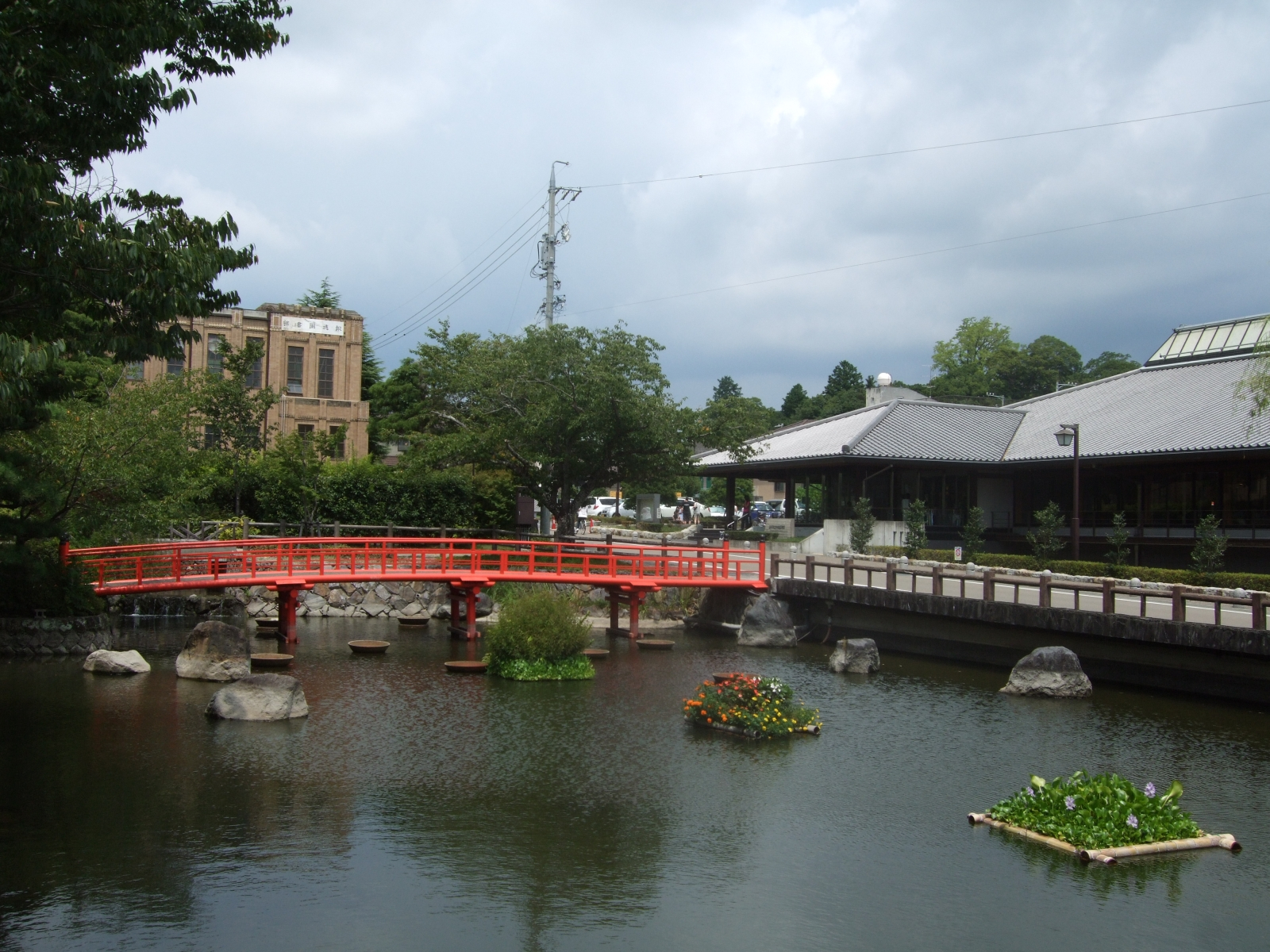 Kakegawa city central library & Hotoku library